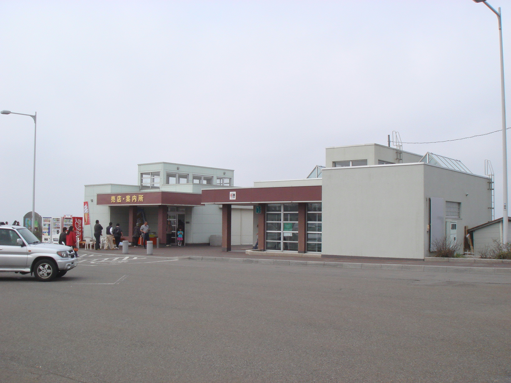 Michinoeki(Roadside Station) Route 229 Genwadai (Otobe, Hokkaidō)